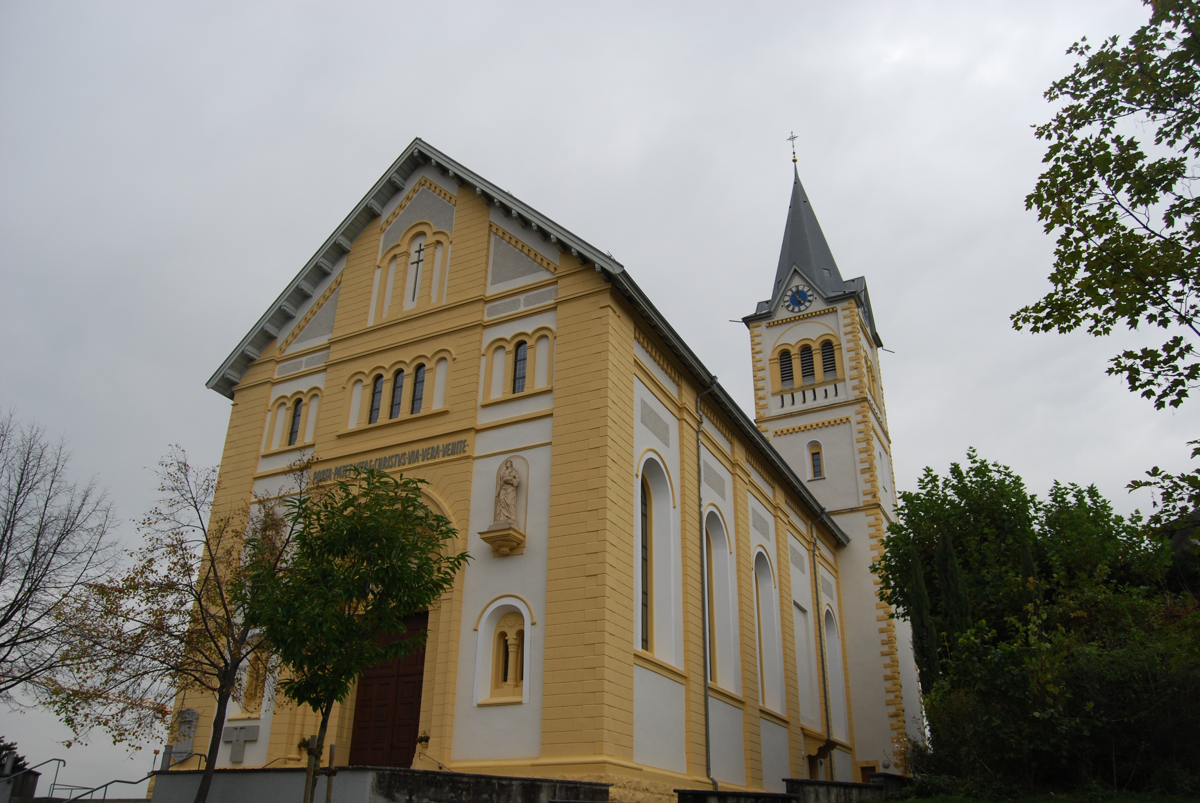 Catholic St. Laurentius church at Reichenburg, canton of Schwyz, SwitzerlandEsperanto: Katolika Sankt-Laŭrenco-Preĝejo en Reichenburg, Kantono Ŝvico, Svislando